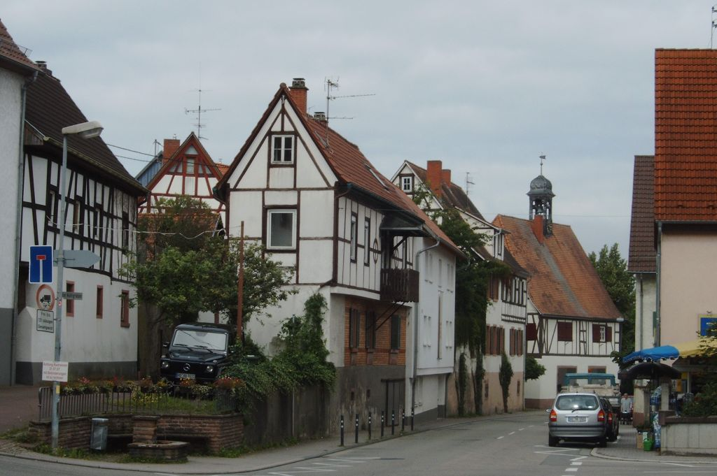 Breitgasse in Großsachsen